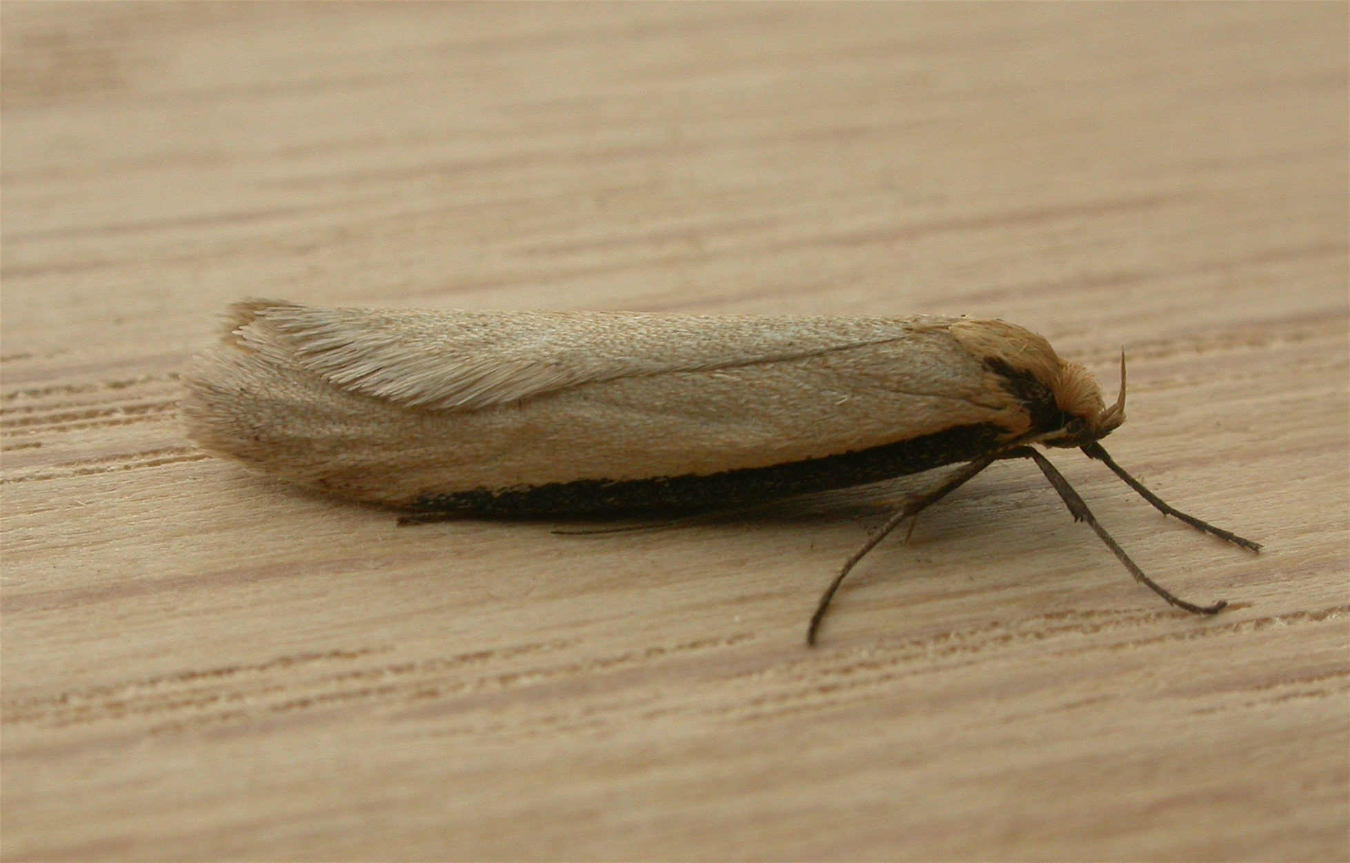 Philobota sp. nov. (mathematica group), to MV light, Aranda, ACT, 5/6 September 2008